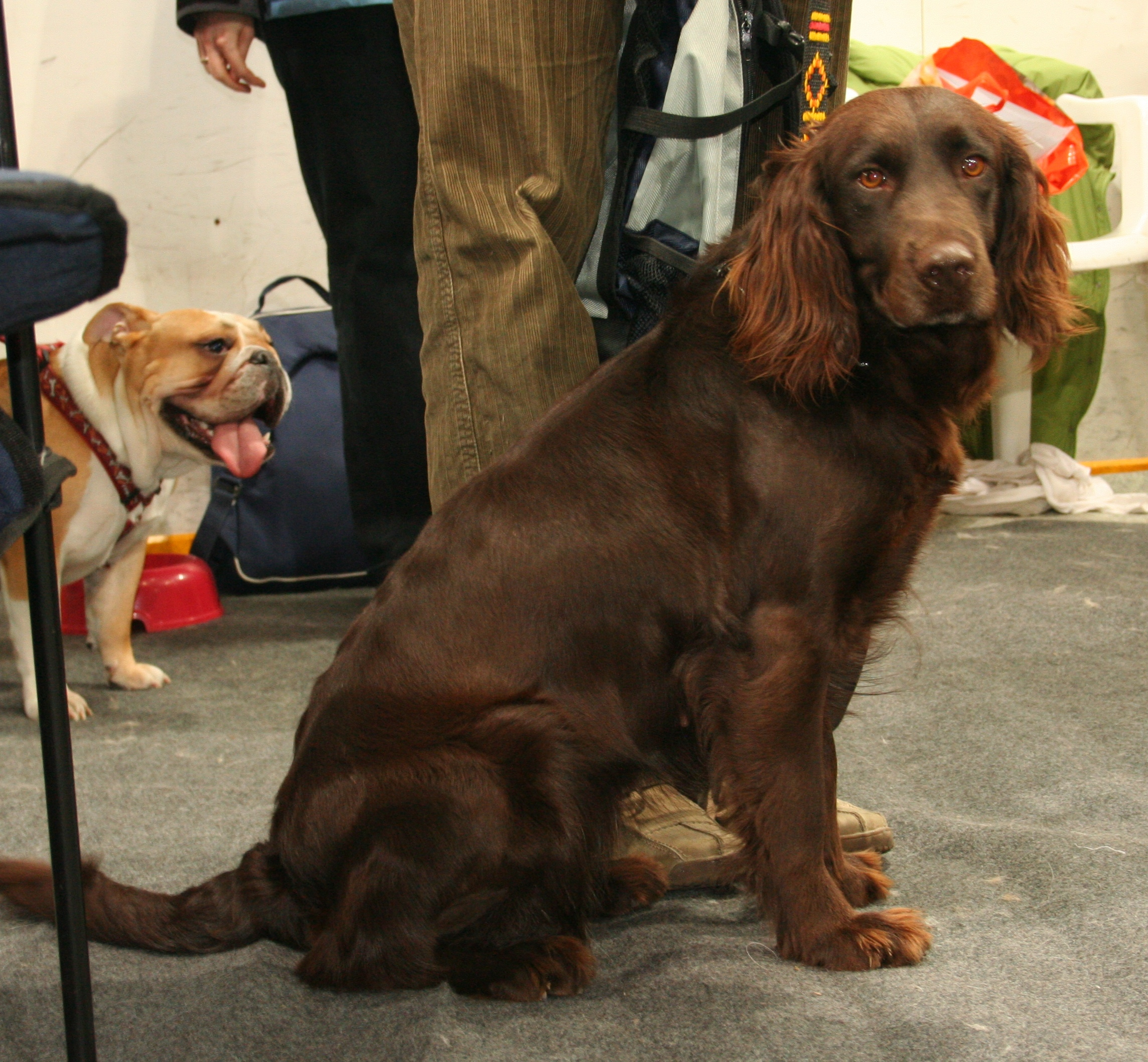 German Spaniel from kennel "Myśliwski Tabor" during International show of dogs in Katowice - Spodek, Poland.